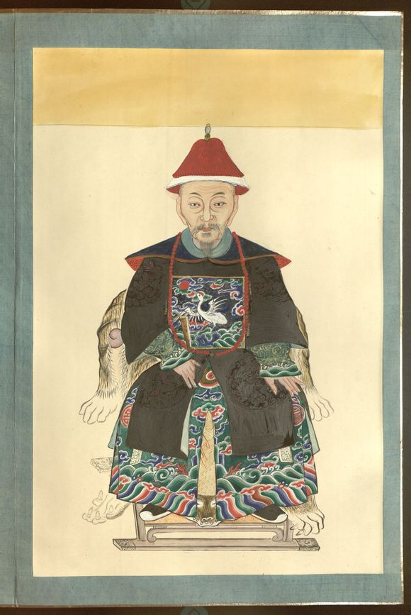 Mu You, a local commander of Lijiang